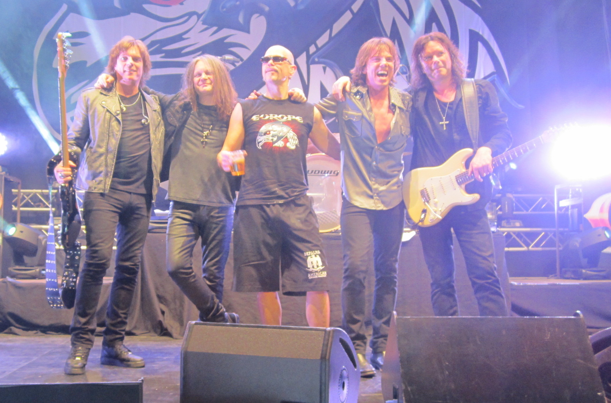 A picture of the Swedish rock band Europe on stage in Stockholm on March 3, 2014. Cropped version of